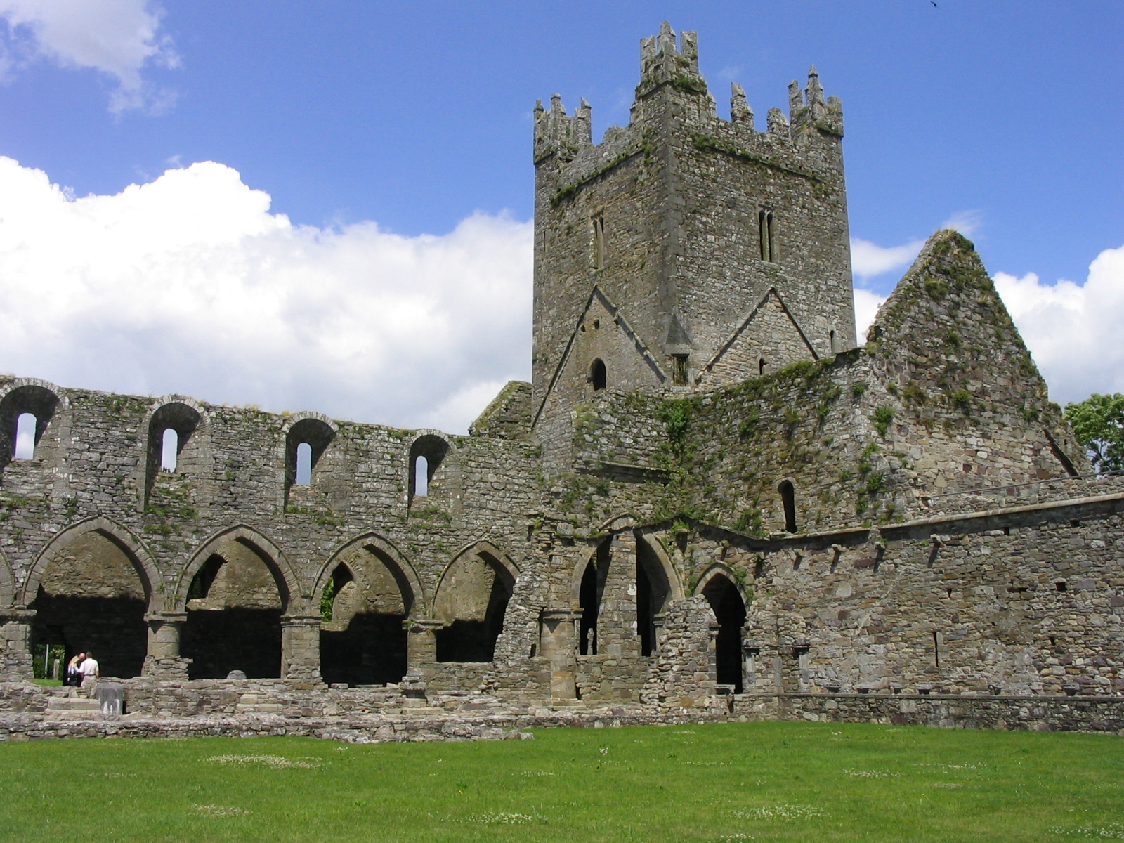 Jerpoint Abbey cloister, county Kilkenny, Ireland.